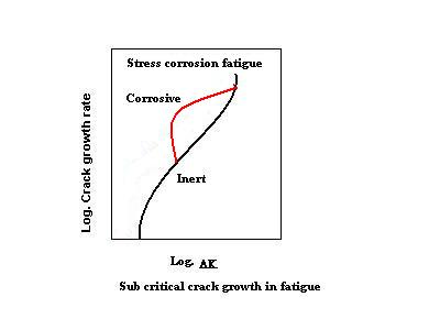 Definition of stress corrosion fatigue-schematic.